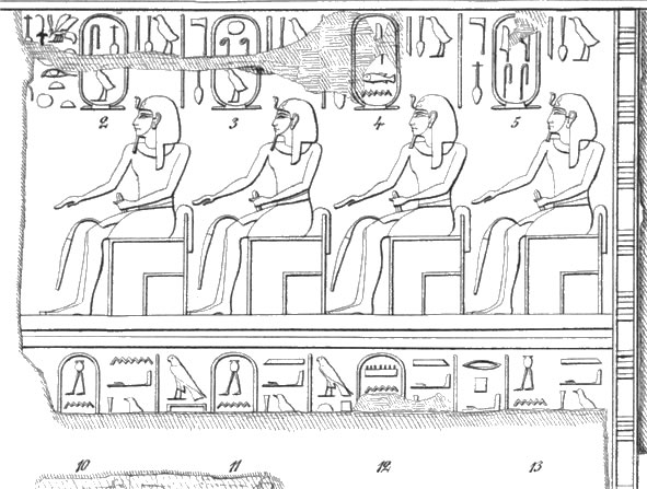 Part of Karnak king list (18th Dynasty). The kings are:2) Sneferu; 3) Sahure; 4) (Nyuserre) Ini; 5) (Djedkare) Isesi; 10) In[tef II ?]; 11) In[tef I?]; 12) Men[tuhotep I ?]; 13) In[tef the Elder ?].